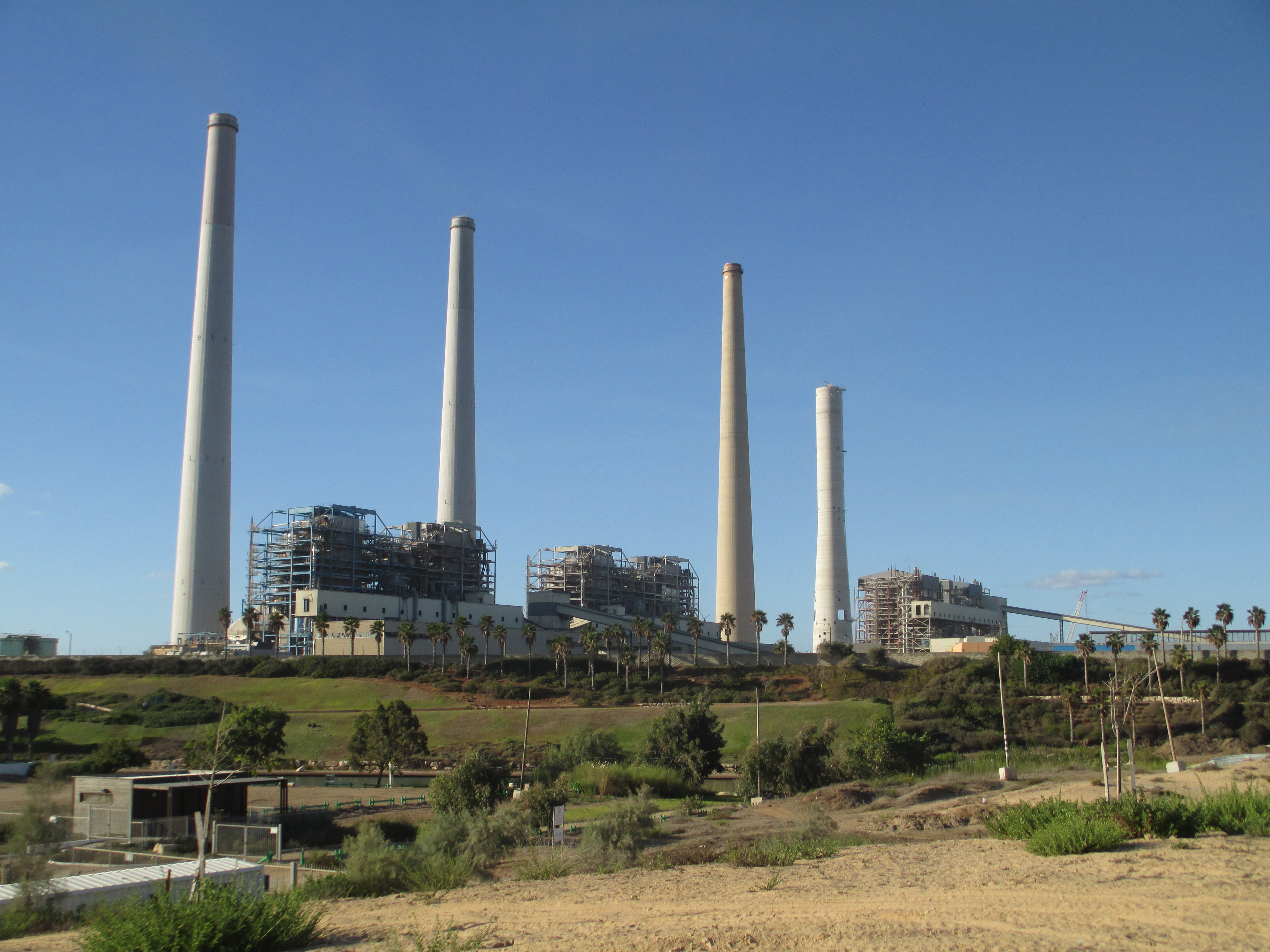 Orot Rabin Power Station